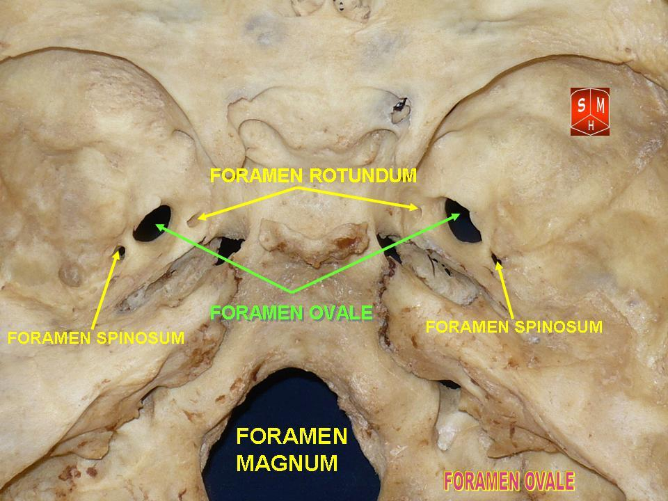 Base of skull